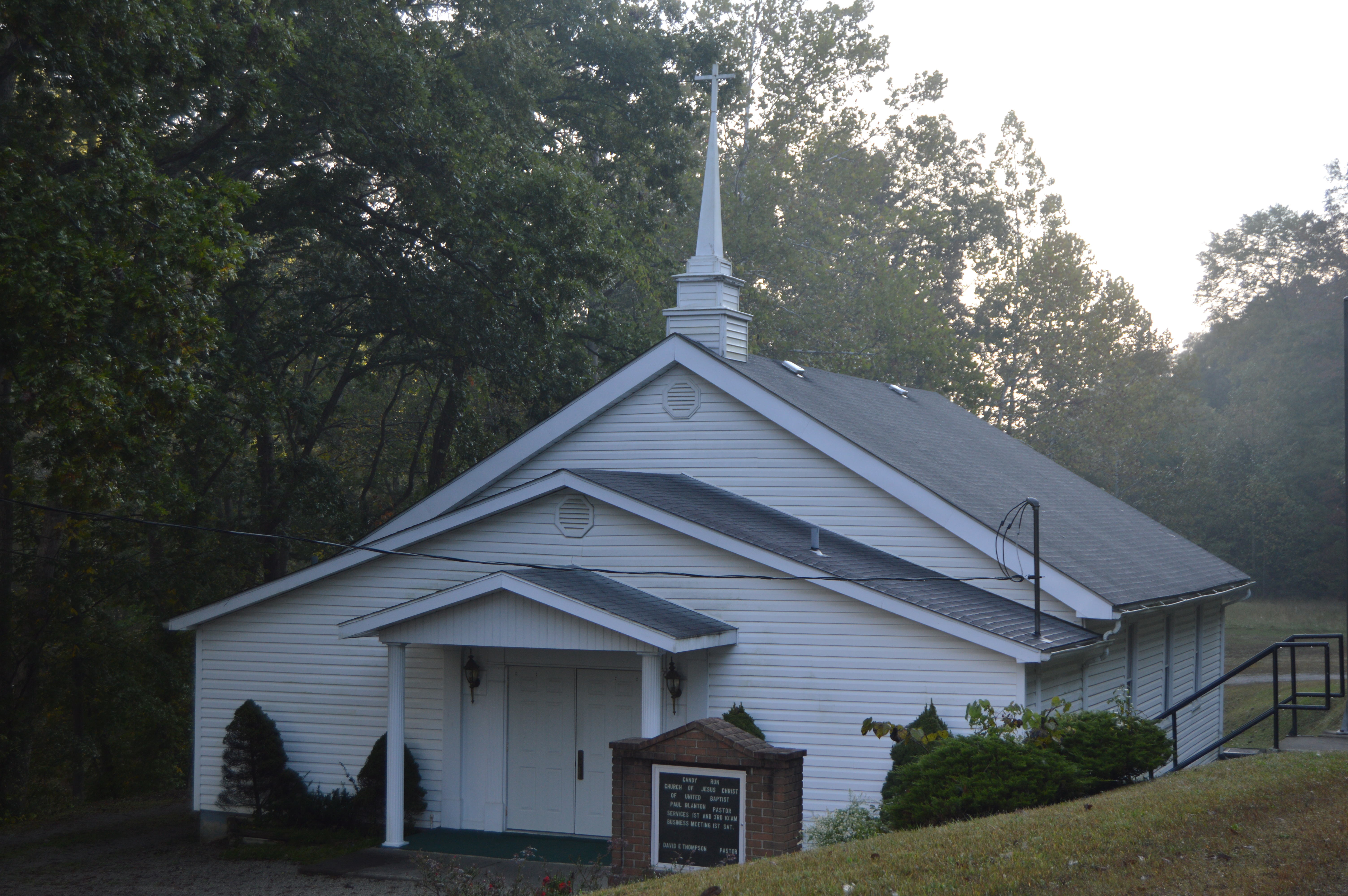 Front and southeastern side of the Candy Run Church of Jesus Christ of United Baptist [sic], located at 1720 Burns Hollow Road east of Lucasville in Jefferson Township, Scioto County, Ohio, United States. It was built in 1930.